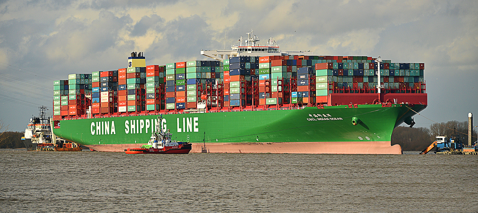 After 5 days and many failed attempts to refloat the ultra large container ship, CSCL Indian Ocean, is still stuck in mud on the River Elbe, Hamburg